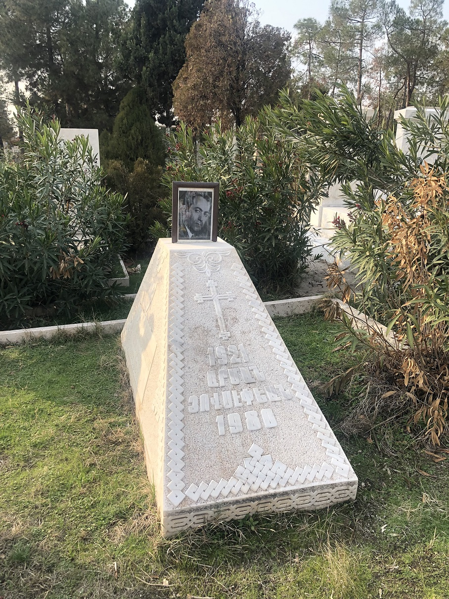 Burastan Cemetery